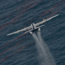 Air force C-130 airplane spraying chemical dispersants on the Gulf of Mexico oil spill in May 2010